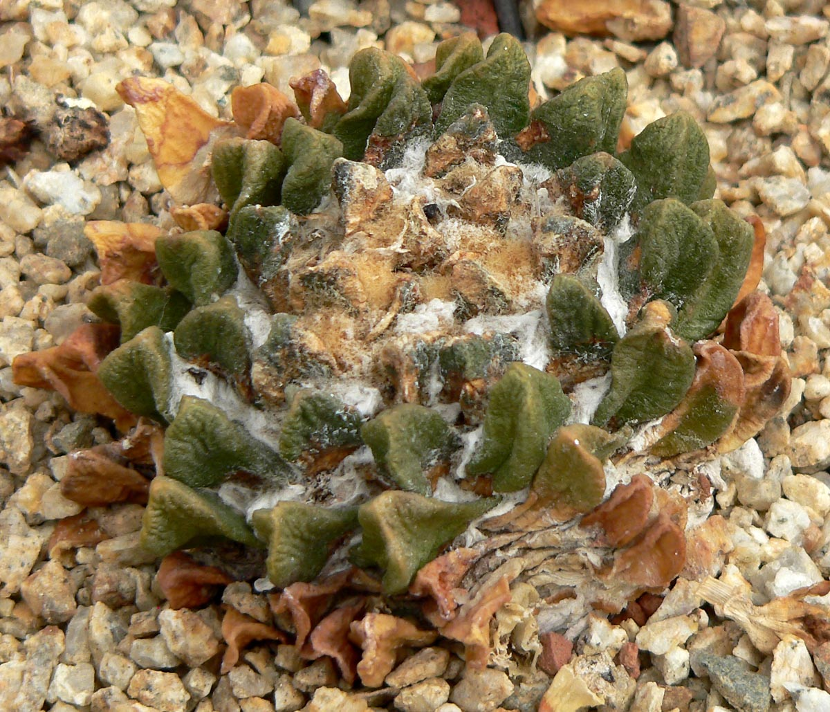 Photo of Ariocarpus scaphirostris at the University of California Botanical Garden